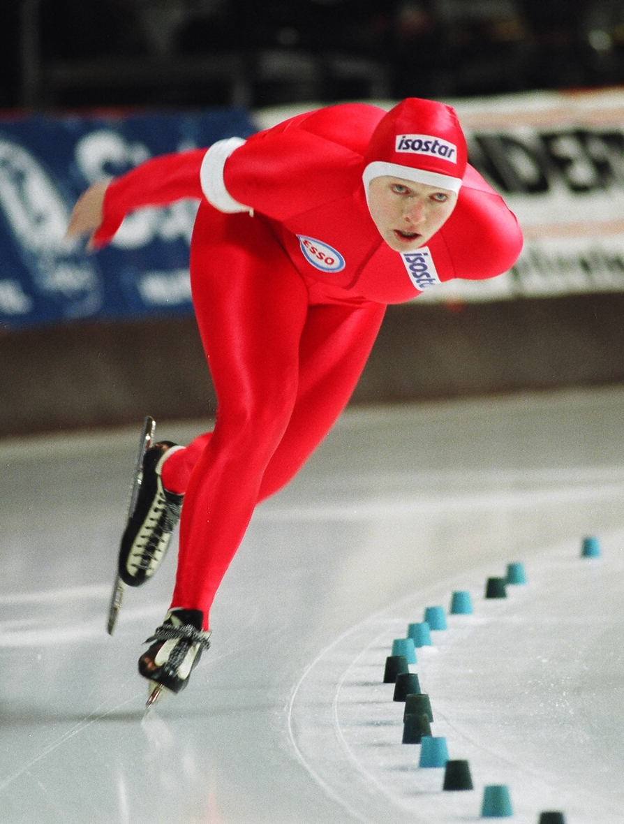 Edel Therese Høiseth, former speedskater from Norway.